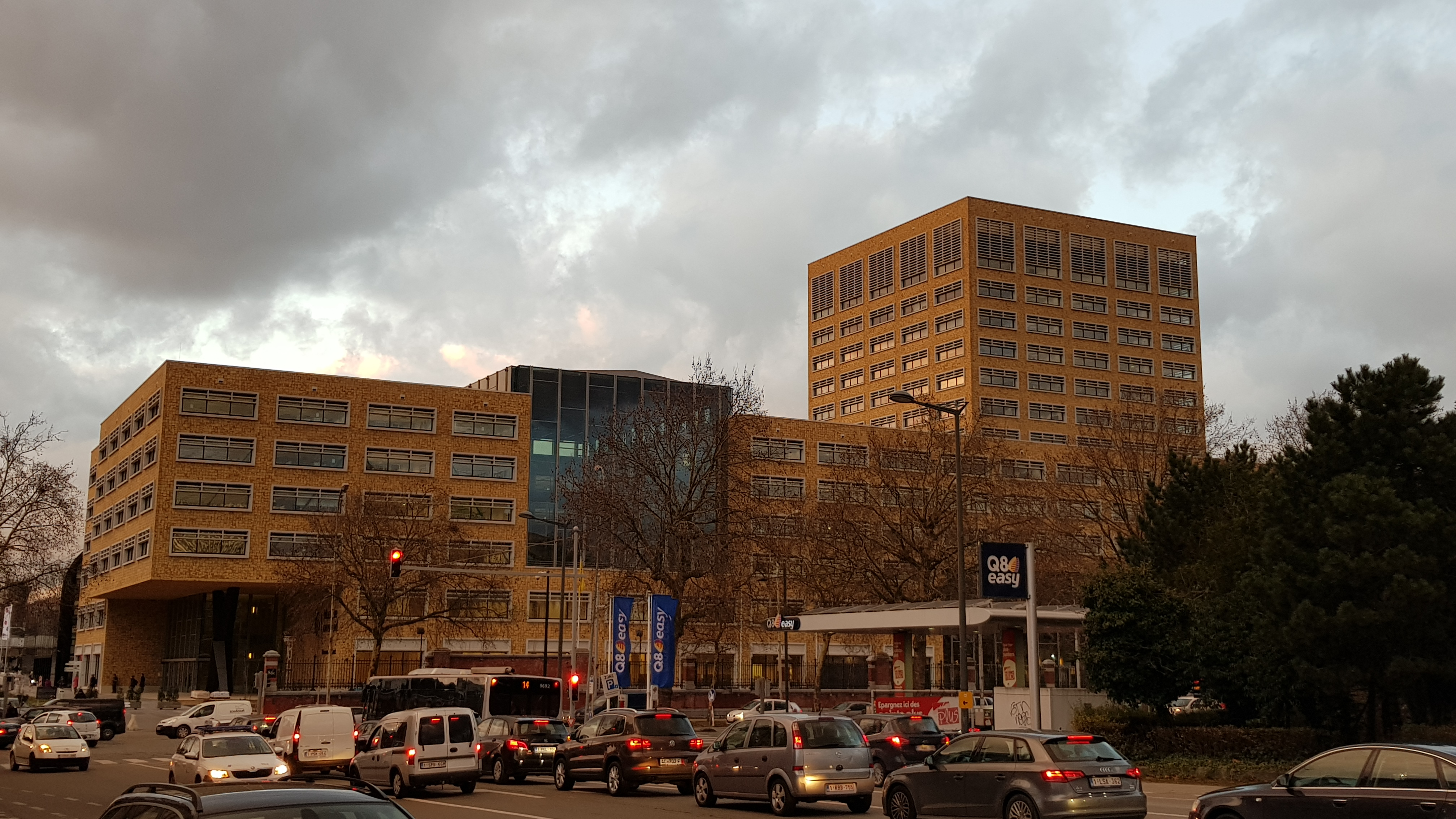 Herman Teirlinckgebouw, Brussels, Belgium